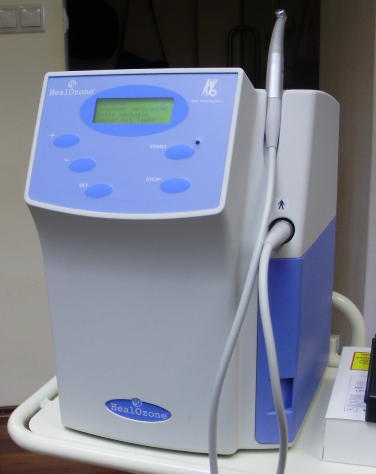 HealOzone